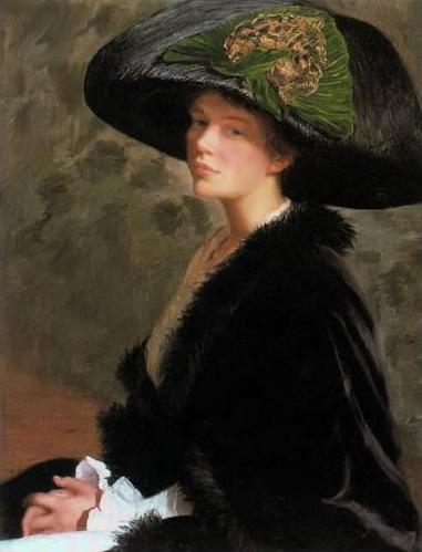 The Green Hat